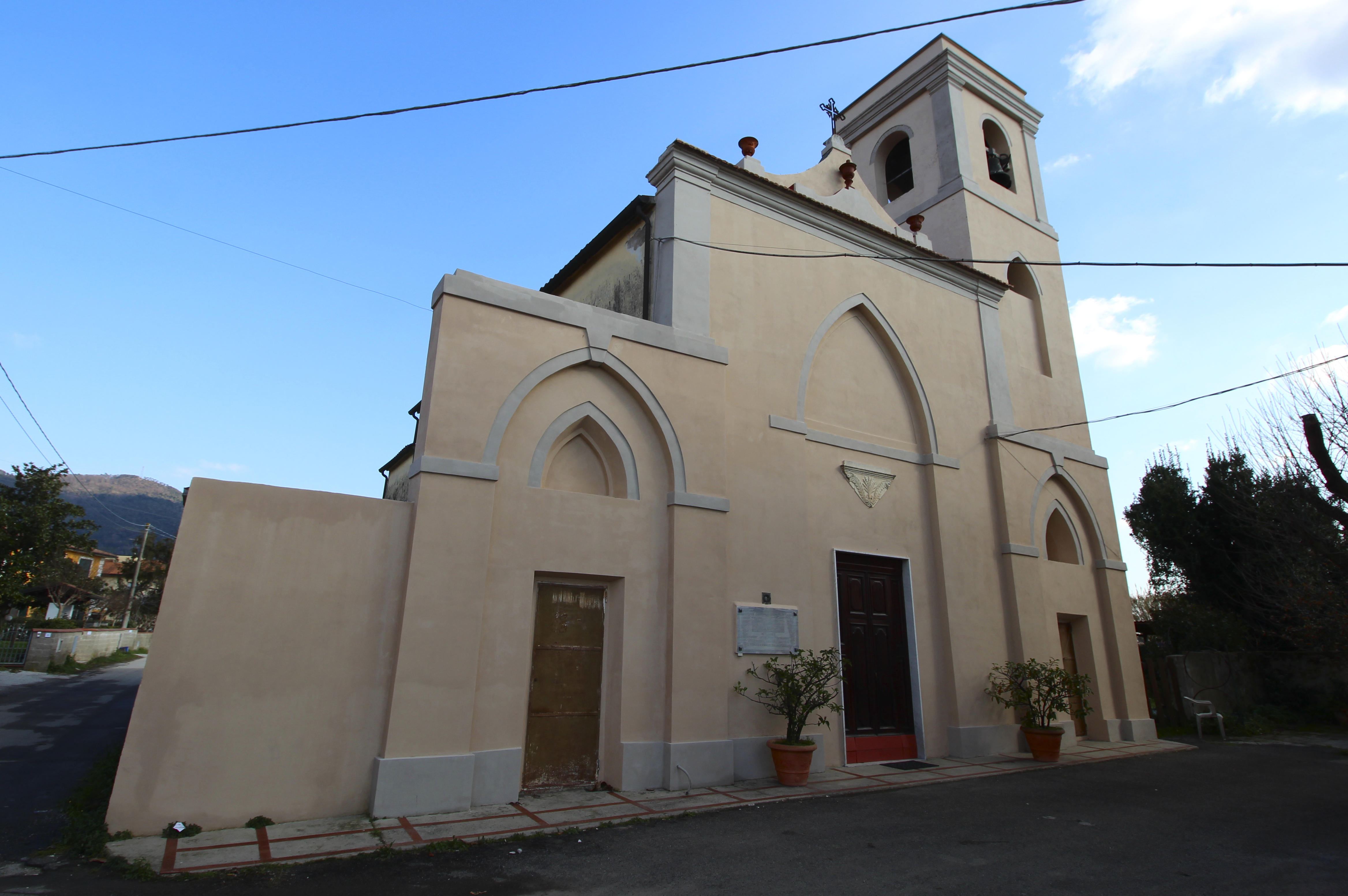 Church Santi Ippolito e Cassiano, Colognole, hamlet of San Giuliano Terme, Province of Pisa, Tuscany, Italy